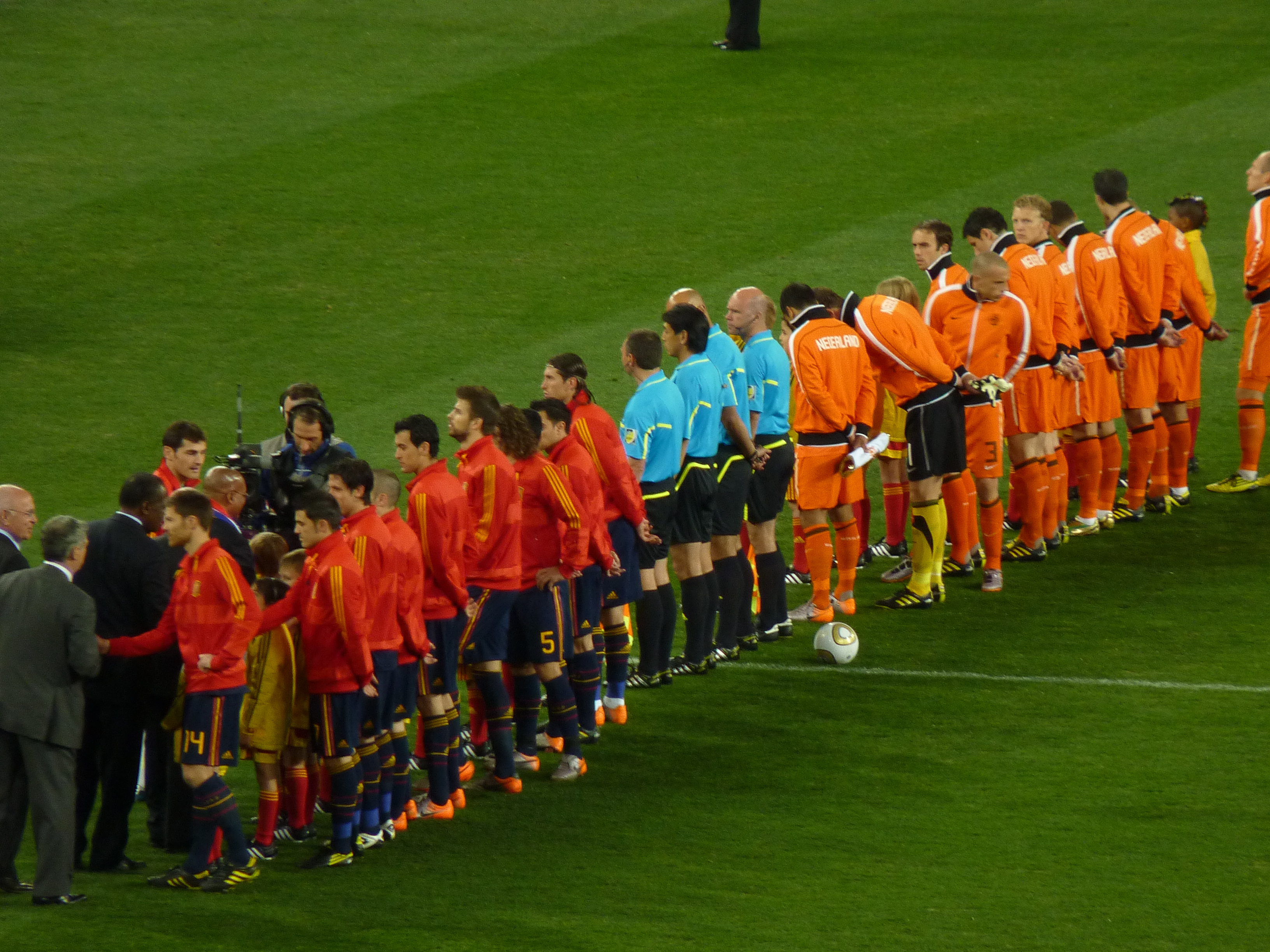 Teams on the pitch before the kick-off of FIFA World Cup 2010 Final game between Netherlands and Spain, 11 July 2010, Soccer City, Johannesburg